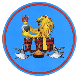 Air Force Sleeve insignia of the 154th ICR